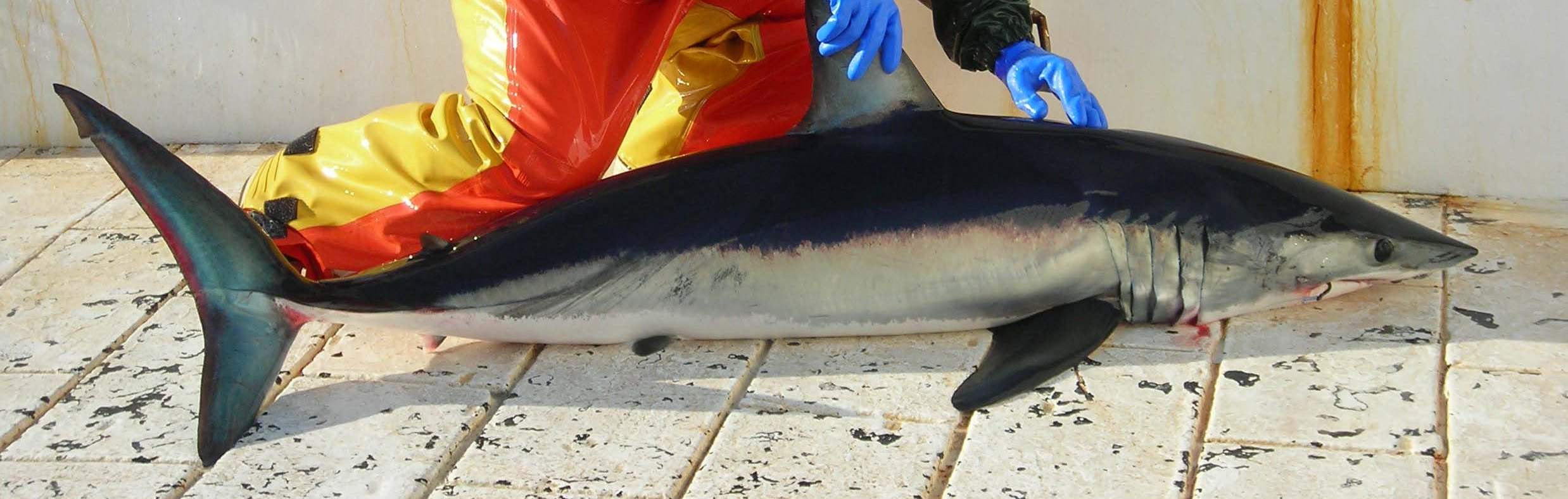 Shortfin mako shark (Isurus oxyrinchus)